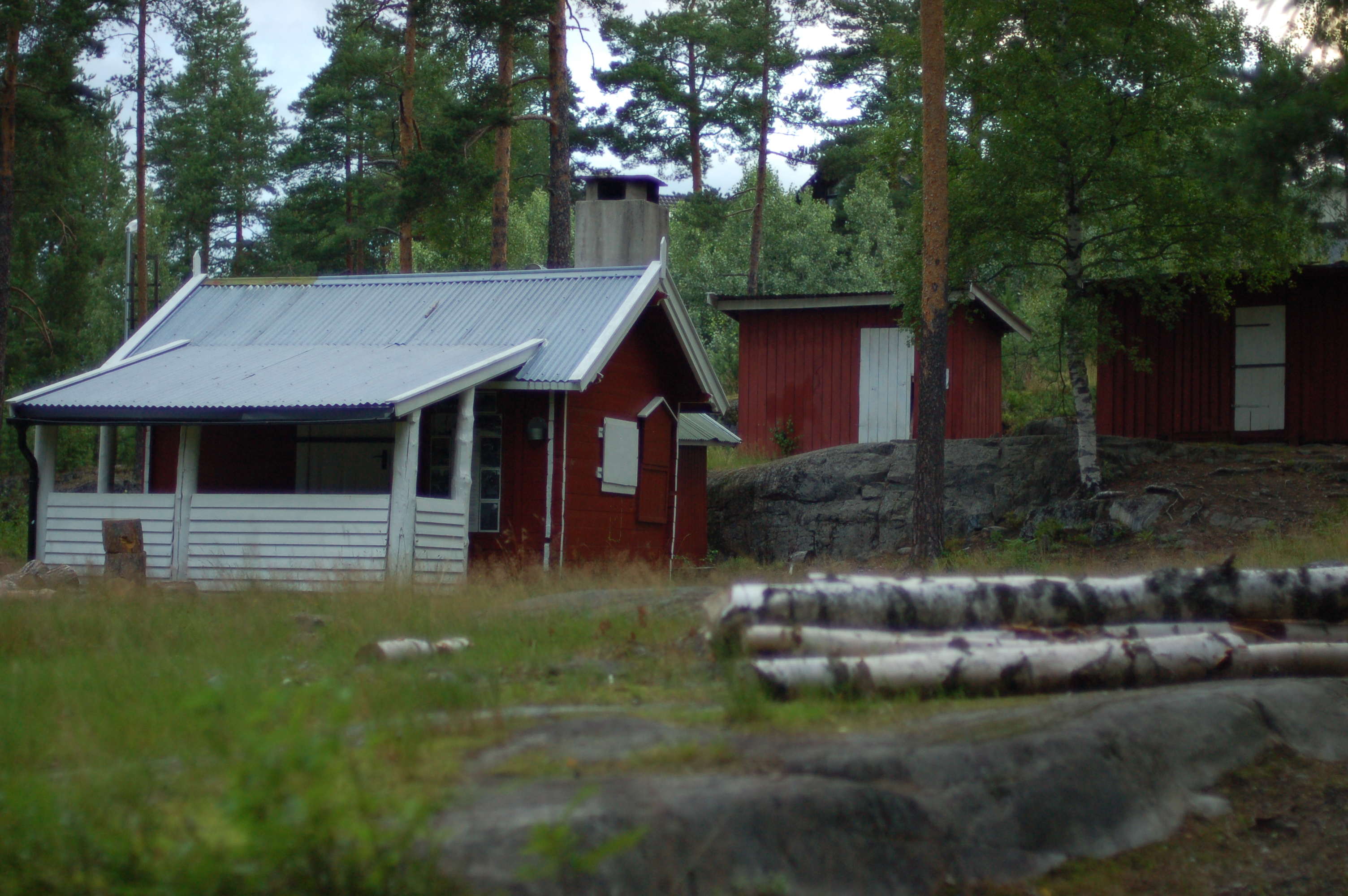 The cabin of the Ruud brothers, Kongsberg, Norway. Photo: Thomas Bjørndahl